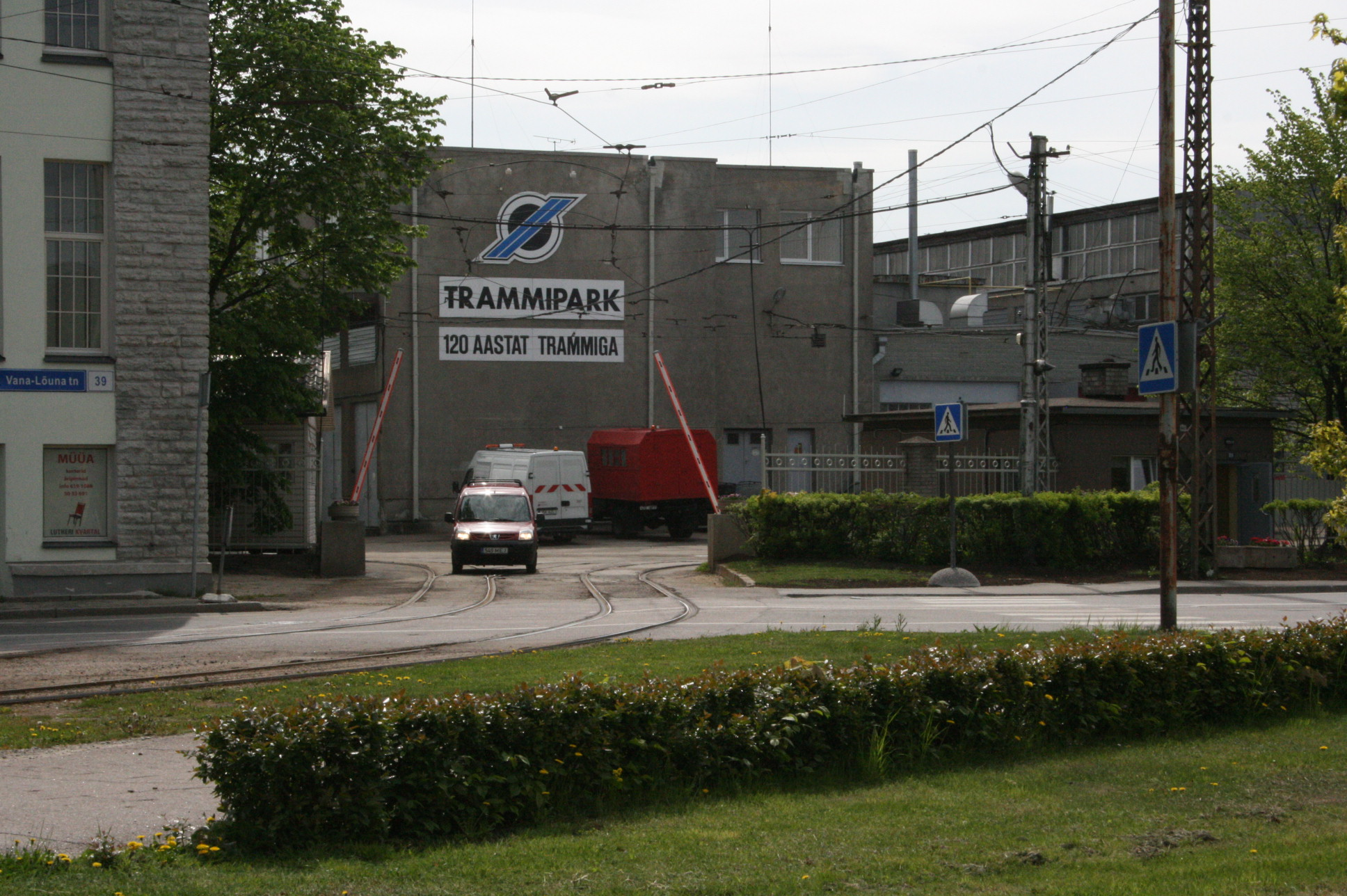 Tram depot Tallinn.